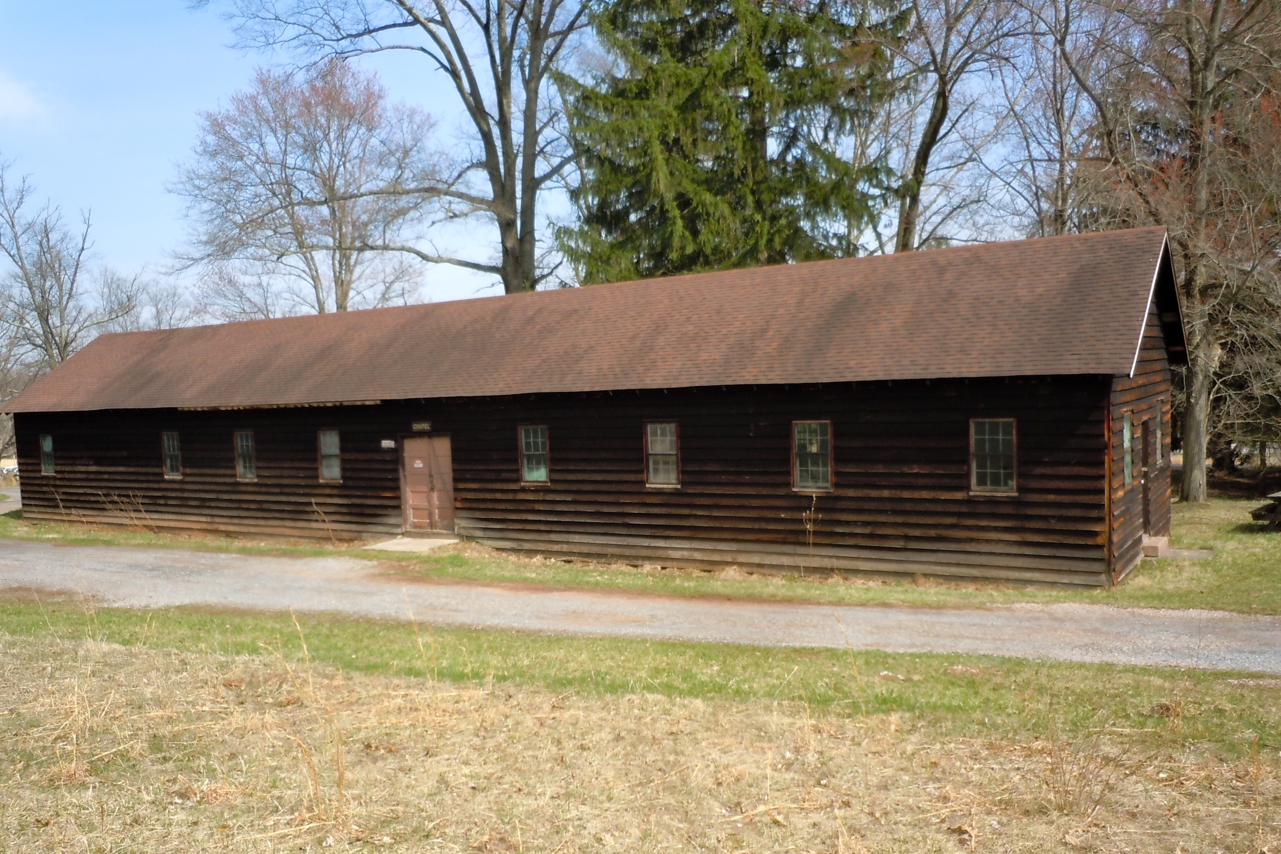 Civilian Conservation Corp building in French Creek State Park, Pennsylvania. This building has a sign "Chapel" on it but was also obviously a barracks (built on a military model). Part of French Creek State Park: Organized Group Camp 4 District on the NRHP since February 12, 1987. Located 7 miles (11 km) northeast of Morgantown on Pennsylvania Route 345, north of the park office, in Union Township, Berks County, Pennsylvania. Note that there are now 3 Organized Group Camps in the park (hopefully a bit modernized), but that this one is now used to store maintenance equipment, etc. Thanks to the friendly ranger for pointing out the location.